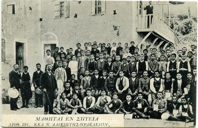 Kazarma